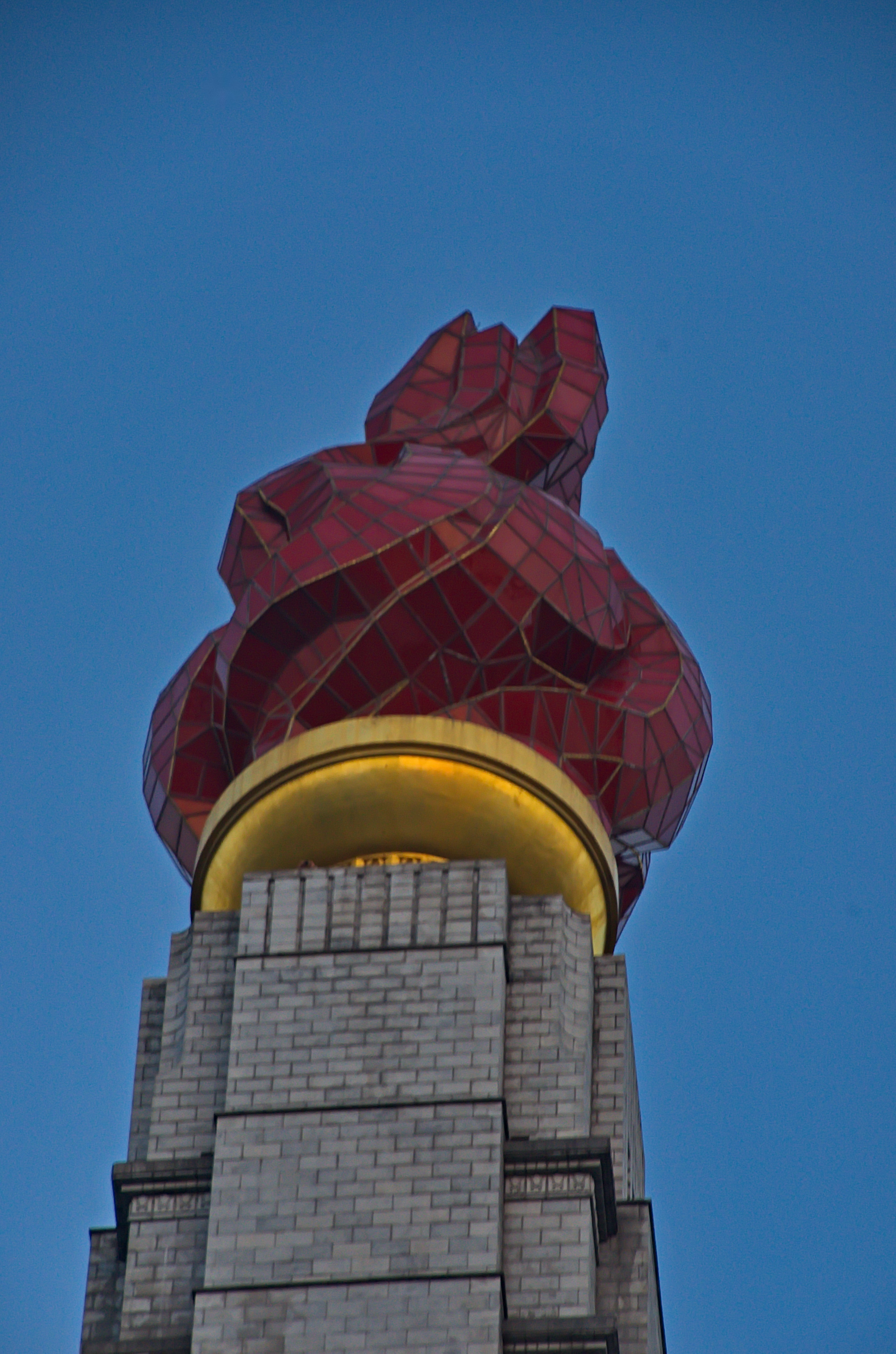 1730 - Nordkorea 2015 - Pjöngjang - Juche Turm Torch at the top of the Juche Tower in Pyongyang, North Korea